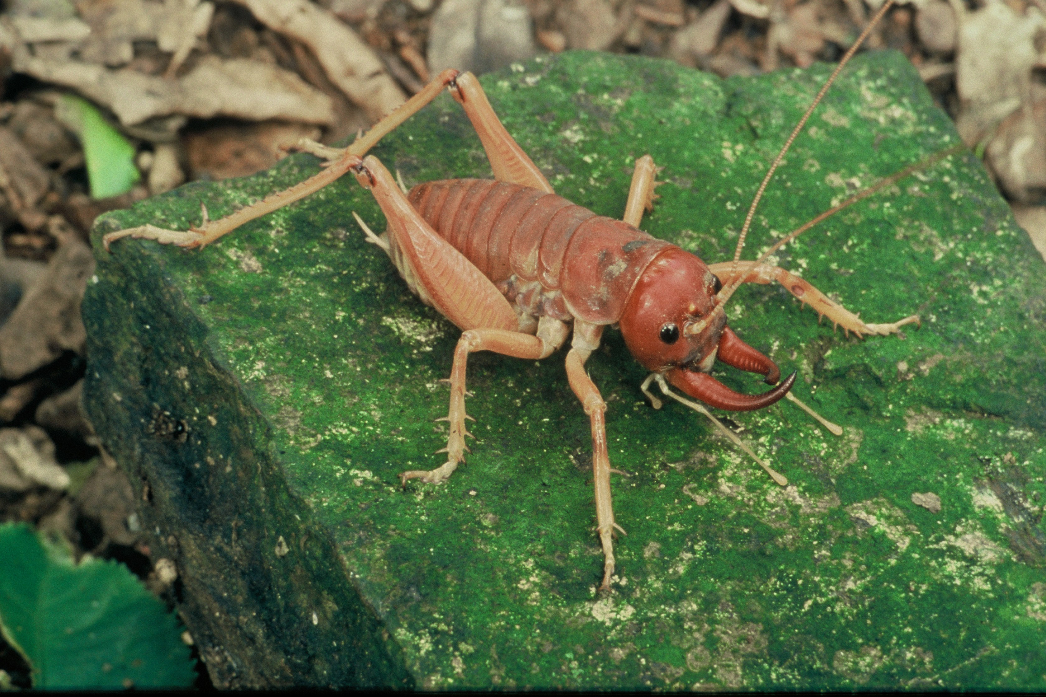 Mercury Islands tusked weta Motuweta isolata on Middle Island in the Mercury Islands